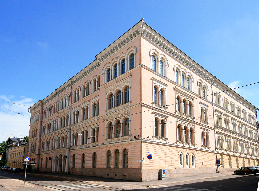 Arpeeanum University Museum in Helsinki, Finland. Architect: Carl Albert Edelfelt. Built in 1869.